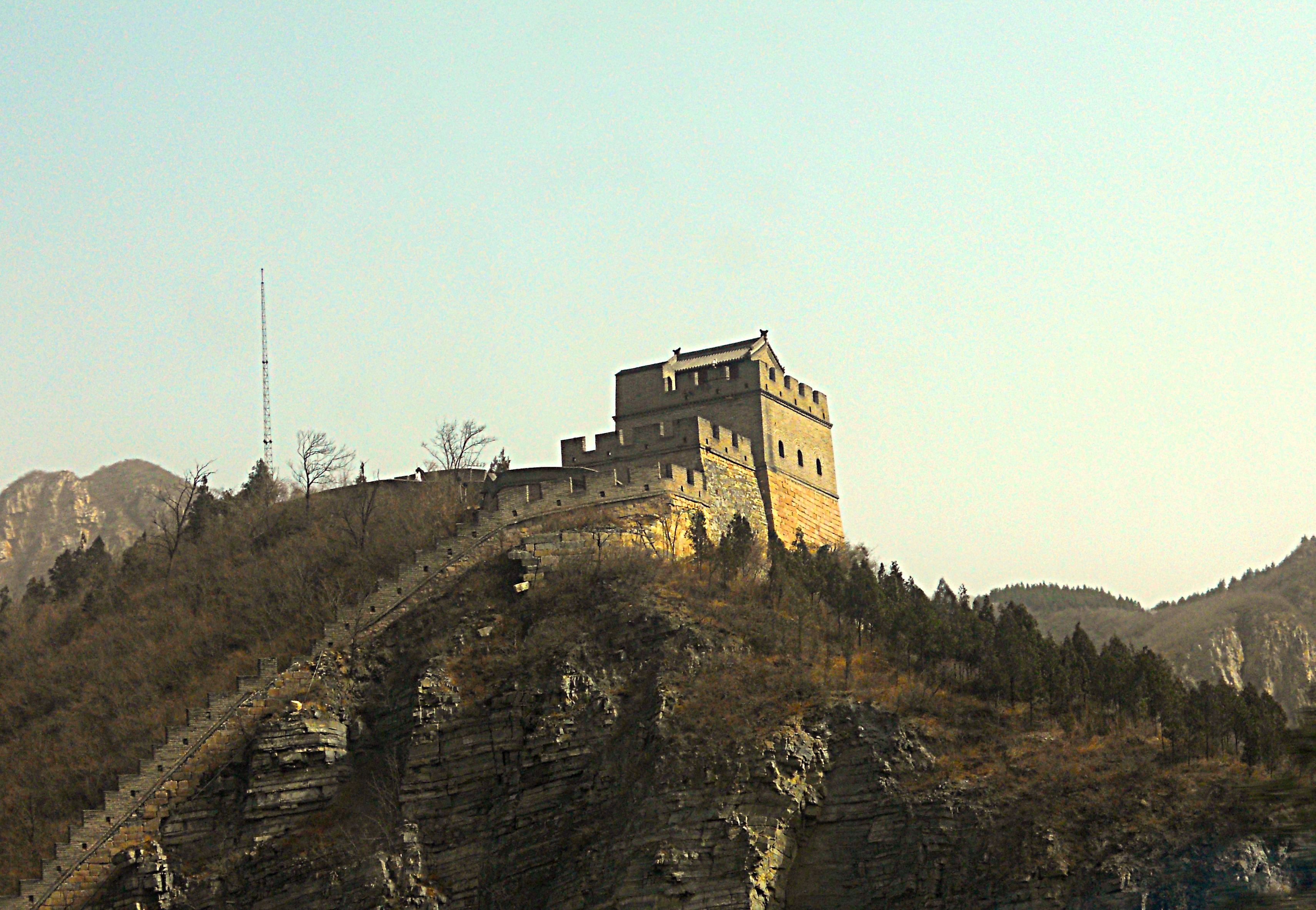 Great wall of China by Mamunuarrashidkazi